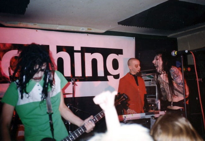 Marilyn Manson performing during the Nights of Nothing tour, a showcase of Nothing Records acts in 1996.